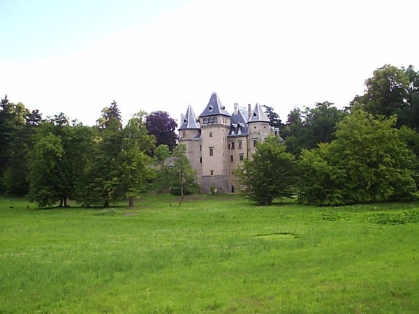 Castle in Gołuchów, Poland